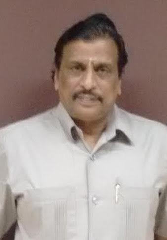 DrGBhaskaran முனைவர்.க.பாஸ்கரன்